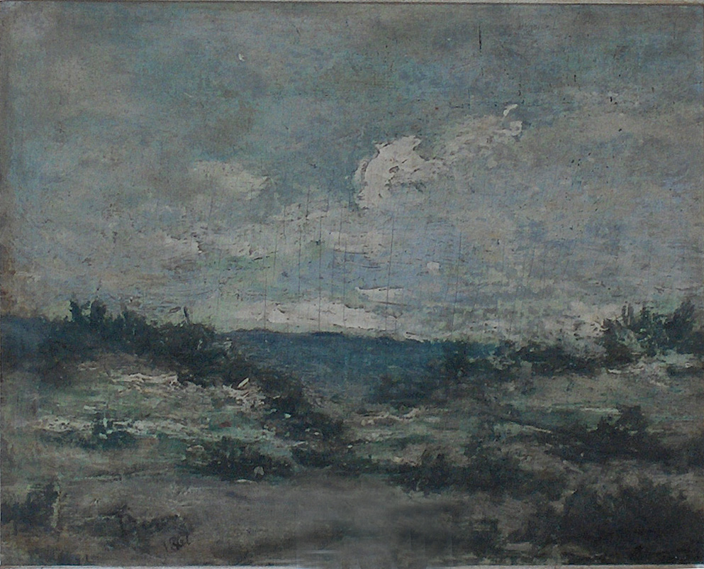 "Heath at Kalmthout" (1866), oil painting on panel (24 x 30 cm) by Théodore Baron (1840-1899); private collection